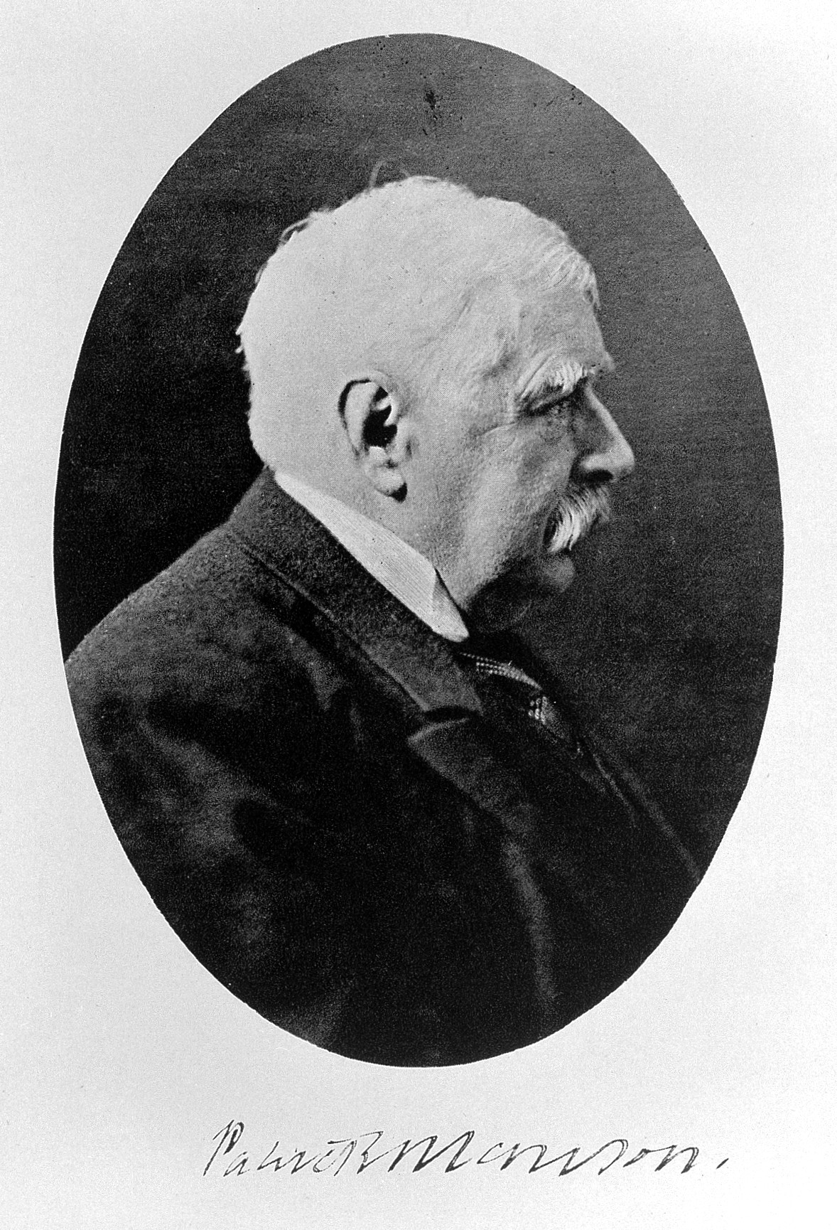 Sir Patrick Manson. Archives & Manuscripts Keywords: Patrick Manson